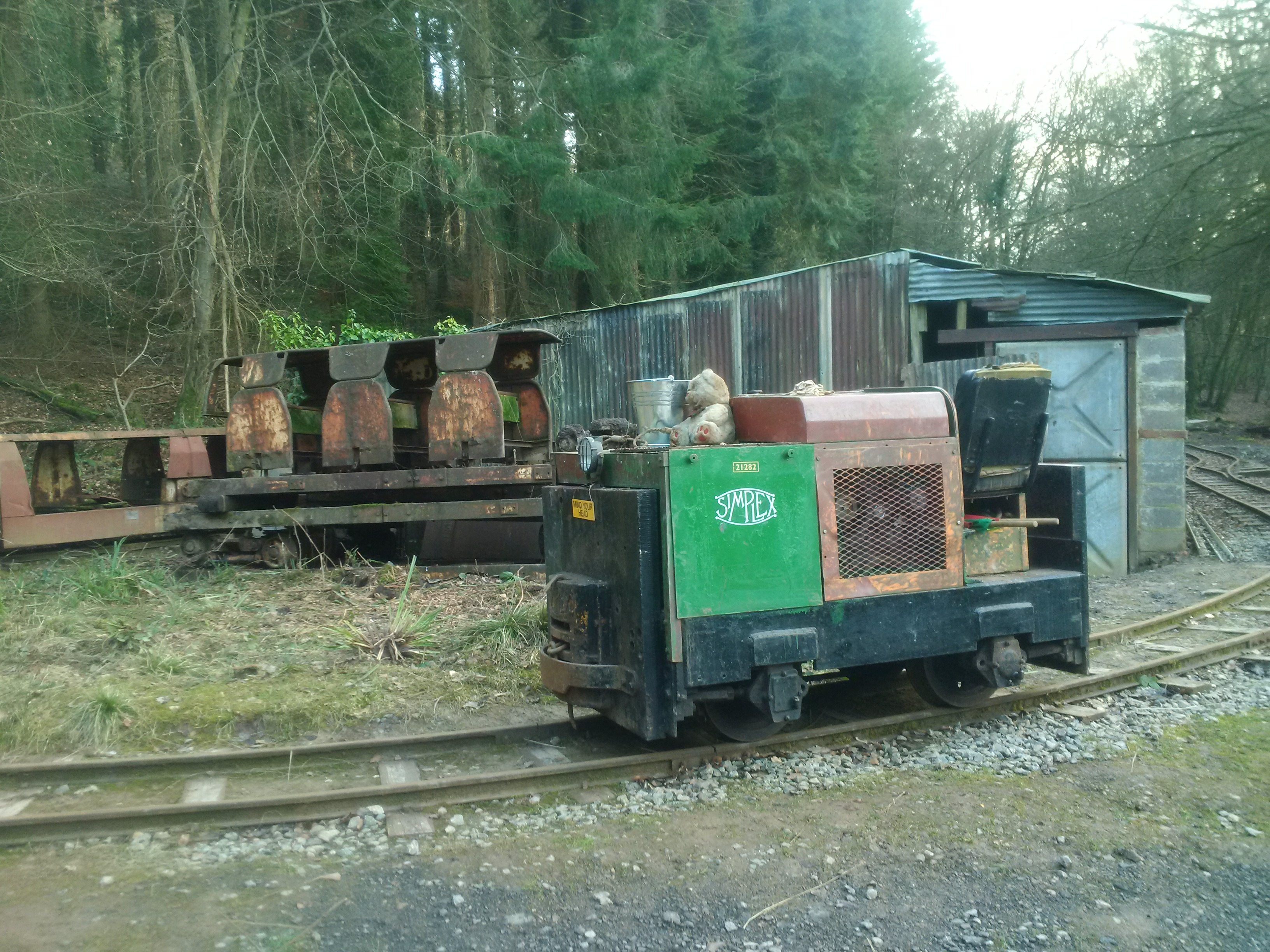 Motor Rail locomotive 21282 at Lea Bailey Light Railway